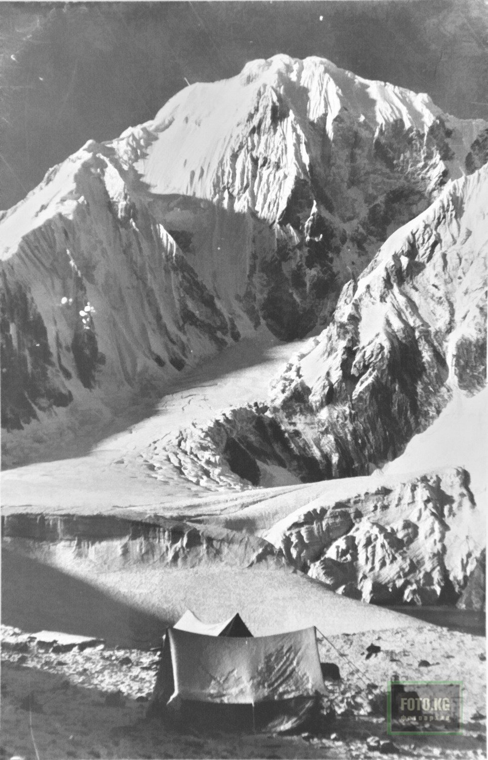 The camp of an expedition of 1931 under the leadership of Mikhail Pogrebetsky on slopes of Khan Tengri. On a background - Pik Pobedy